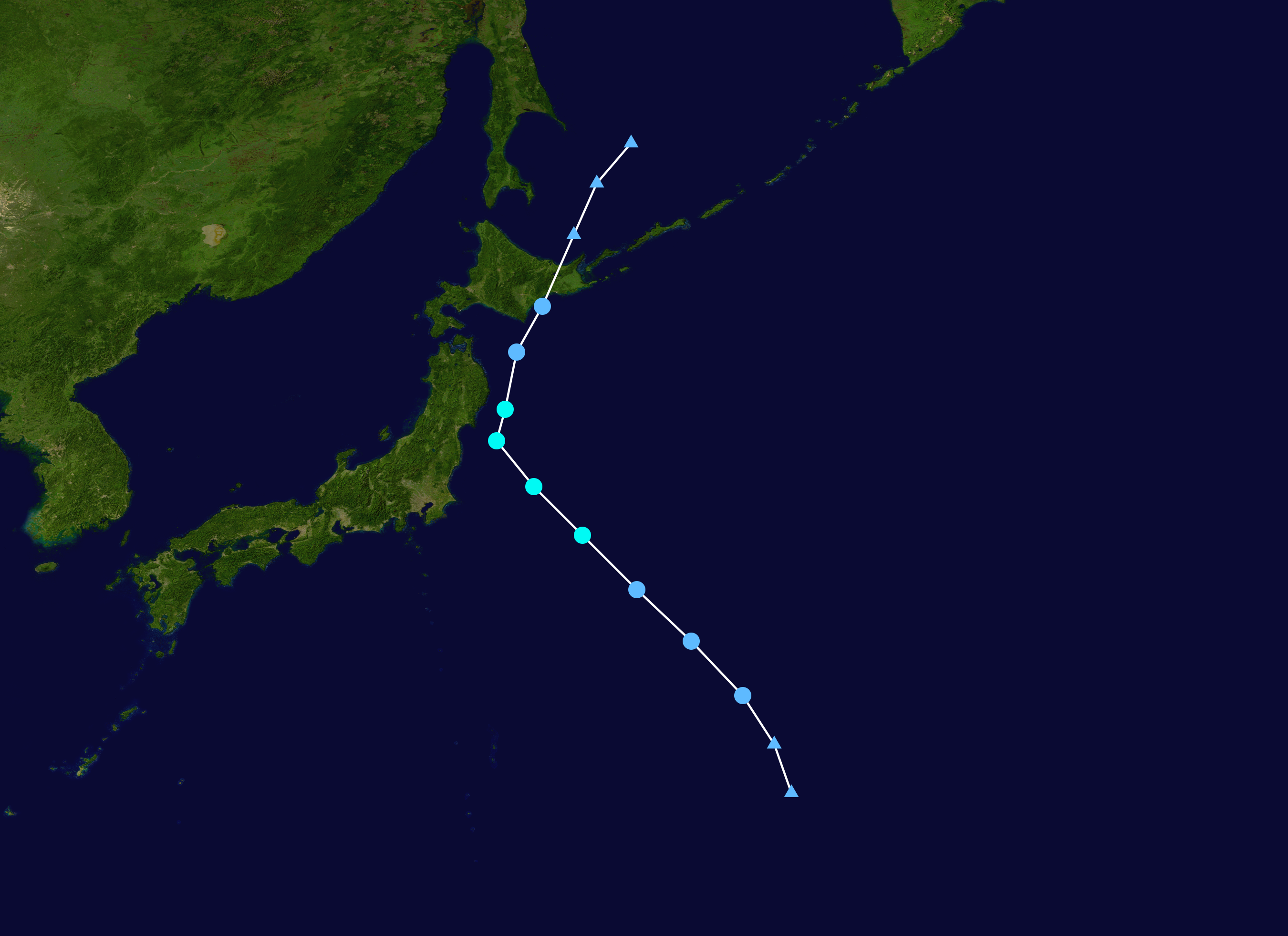 Track map of Tropical Storm Kompasu of the 2016 Pacific typhoon season. The points show the location of the storm at 6-hour intervals. The colour represents the storm's maximum sustained wind speeds as classified in the Saffir–Simpson scale (see below), and the shape of the data points represent the nature of the storm, according to the legend below. Saffir–Simpson scale Tropical depression≤38 mph≤62 km/h Category 3111–129 mph178–208 km/h Tropical storm39–73 mph63–118 km/h Category 4130–156 mph209–251 km/h Category 174–95 mph119–153 km/h Category 5≥157 mph≥252 km/h Category 296–110 mph154–177 km/h Unknown Storm type Tropical cyclone Subtropical cyclone Extratropical cyclone / Remnant low / Tropical disturbance / Monsoon depression